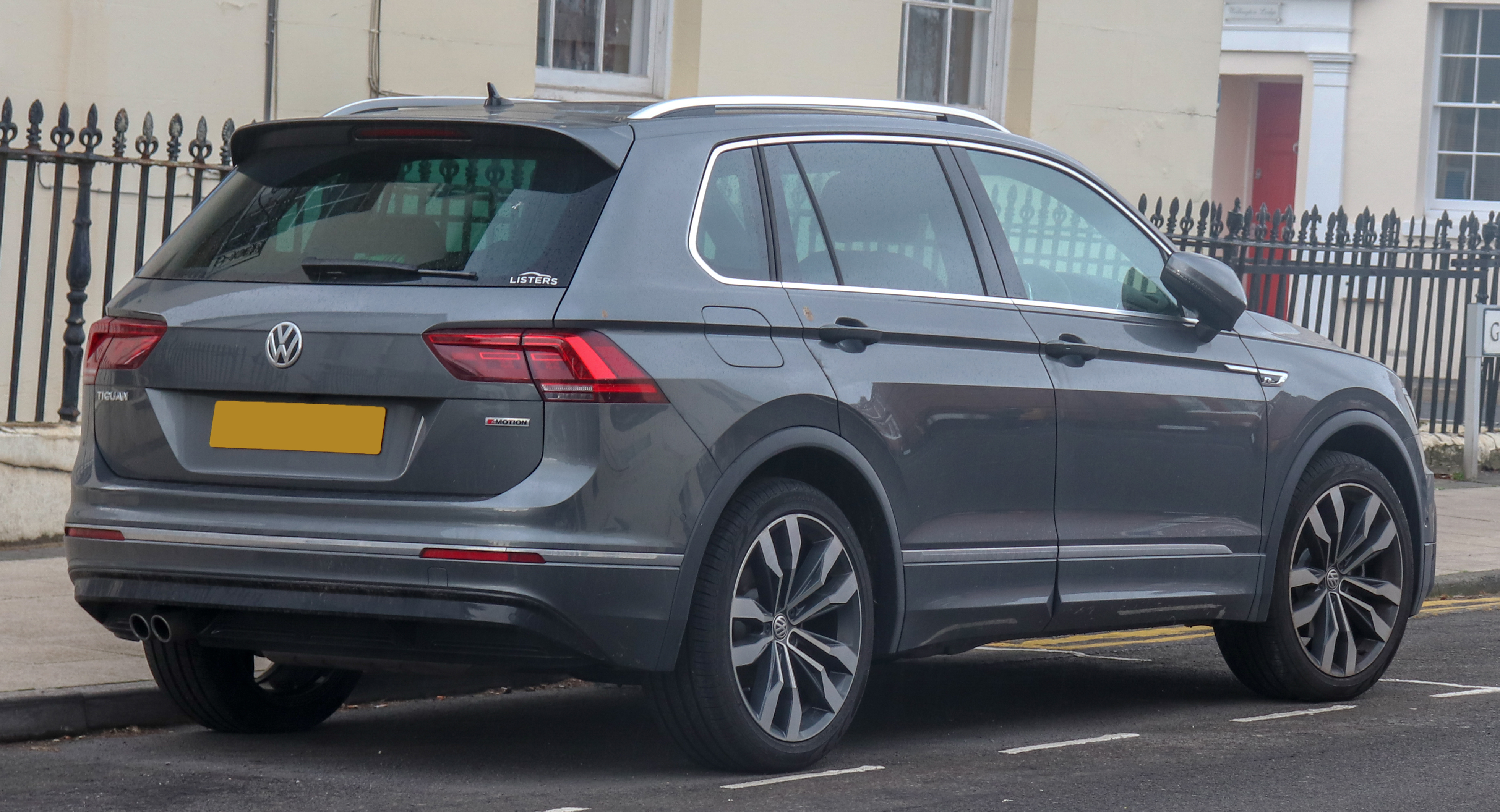 2018 Volkswagen Tiguan R-Line TSi BlueMotion 4Motion 2.0 Rear Taken in Leamington Spa